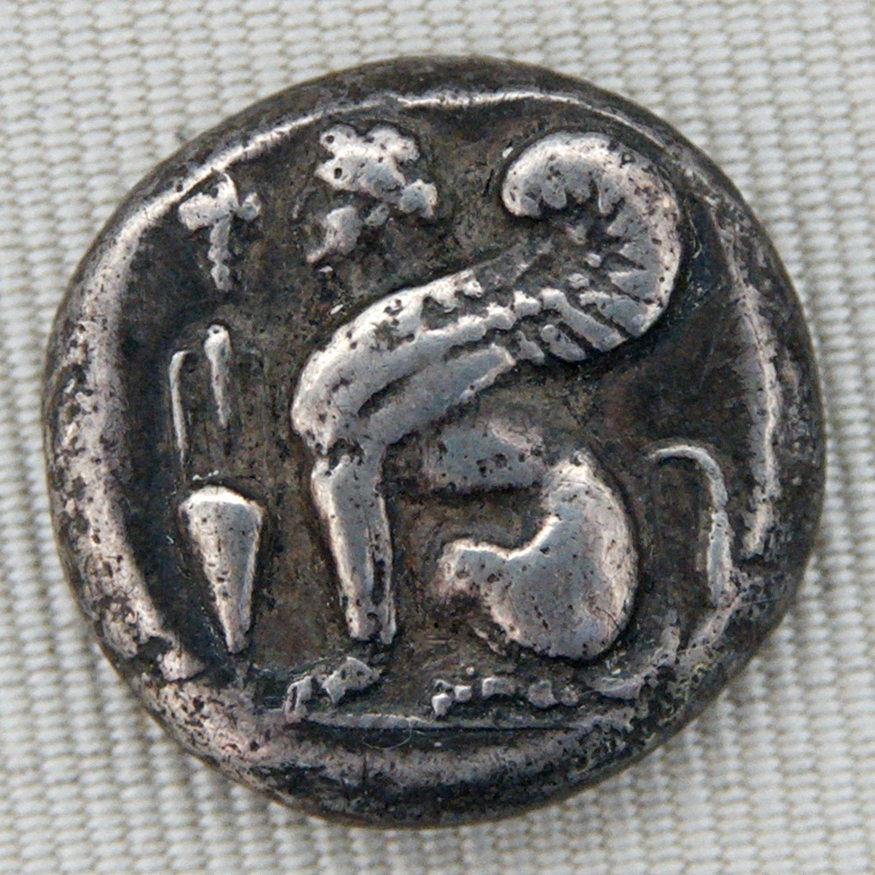 Silver tetradrachm issued by Chios, ca. 420–350 BC, obverse: seated Sphinx facing an amphora and a wine grape.